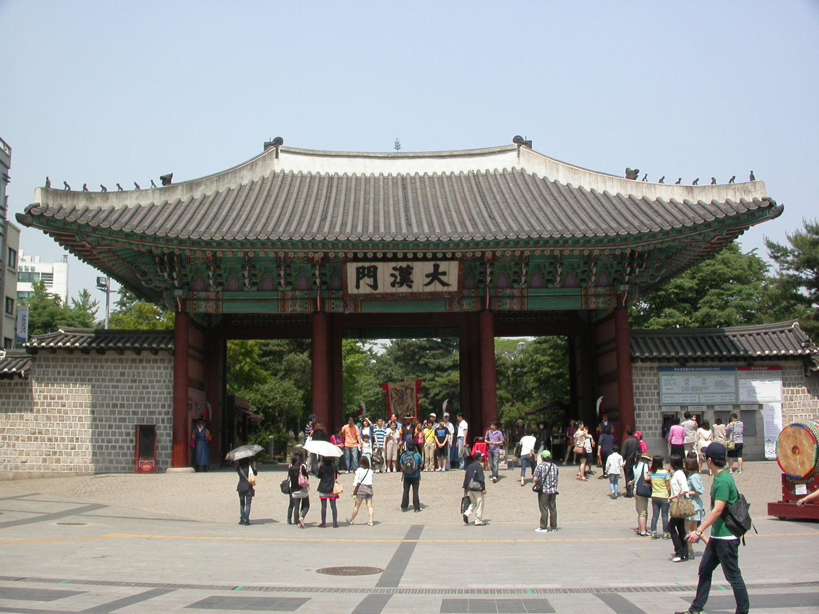 Daehanmun, Deoksu palace